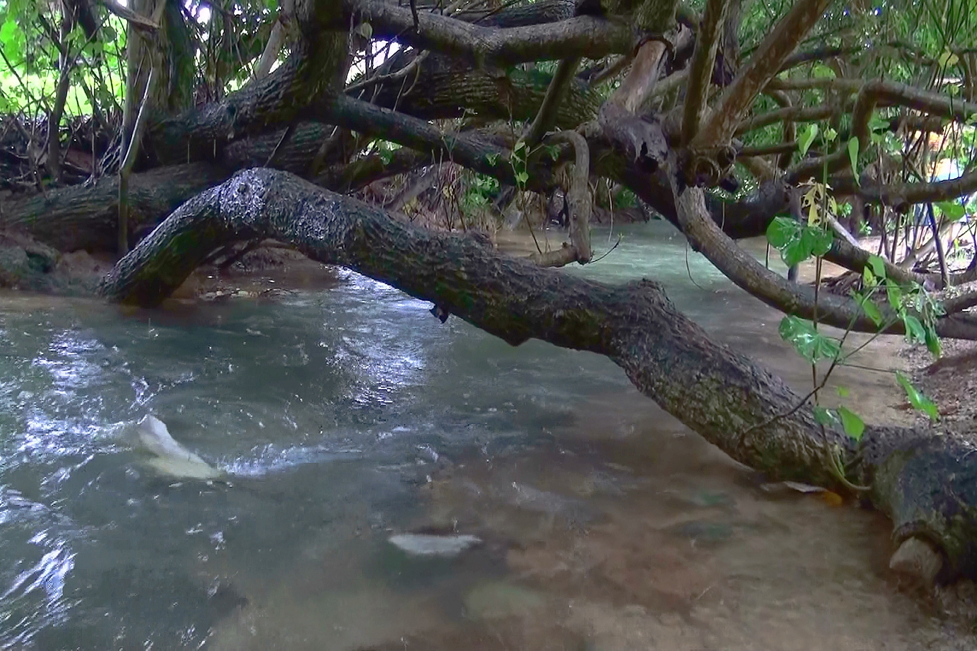 Shio-kawa of the Japanese natural monument at Okinawa prefecture